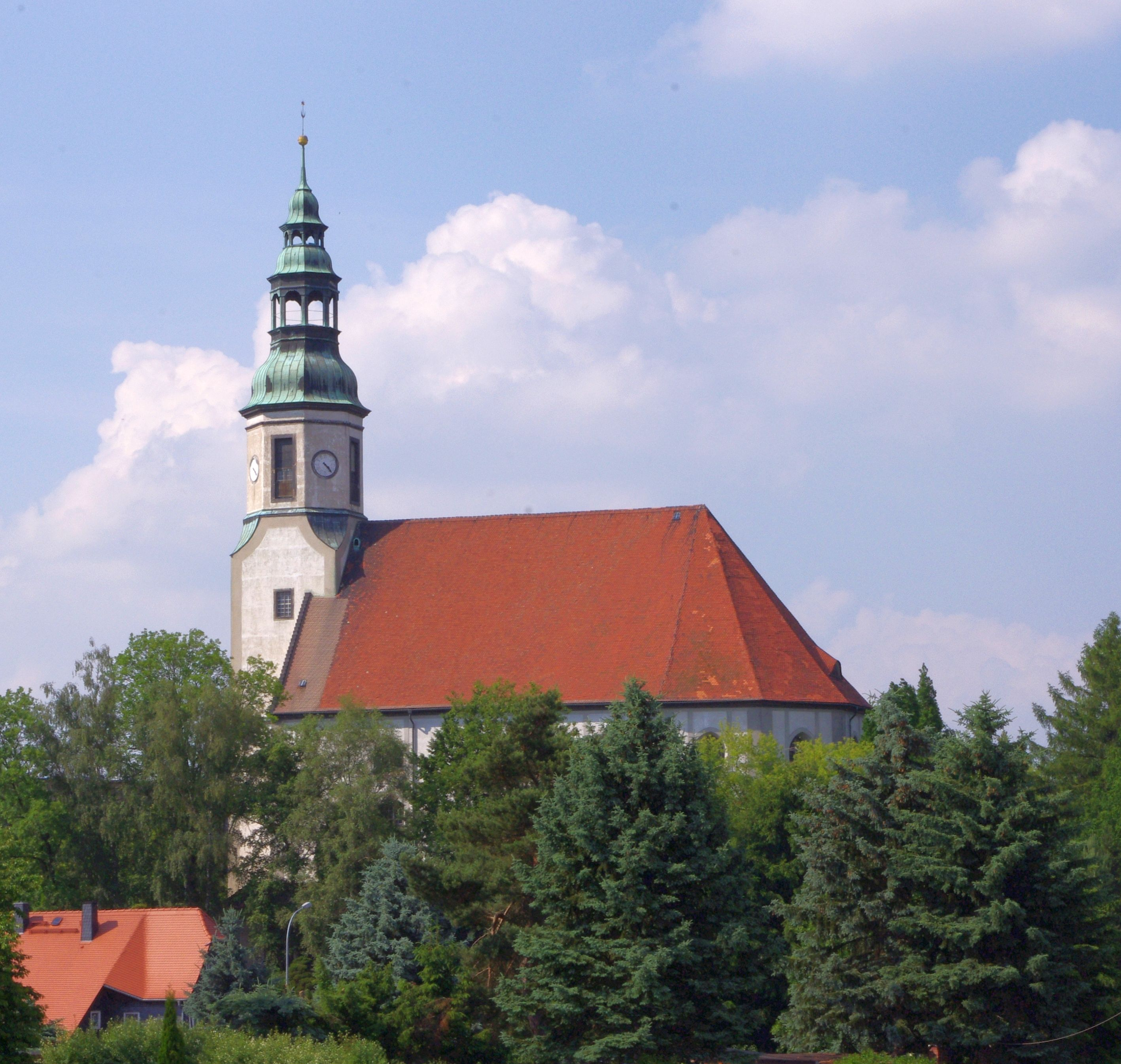 The church of Niederoderwitz, Oderwitz, Germany.